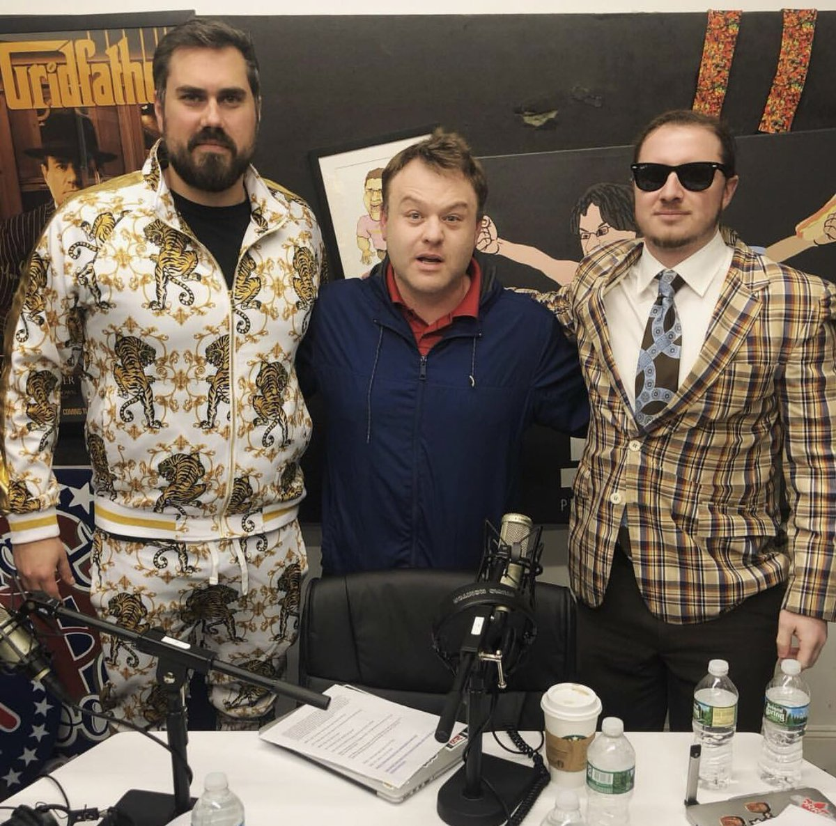 pardonmytake